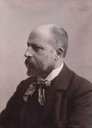 Danish painter, opera director, and director of the Arts & Crafts Museum, Pietro Krohn (1840-1905)